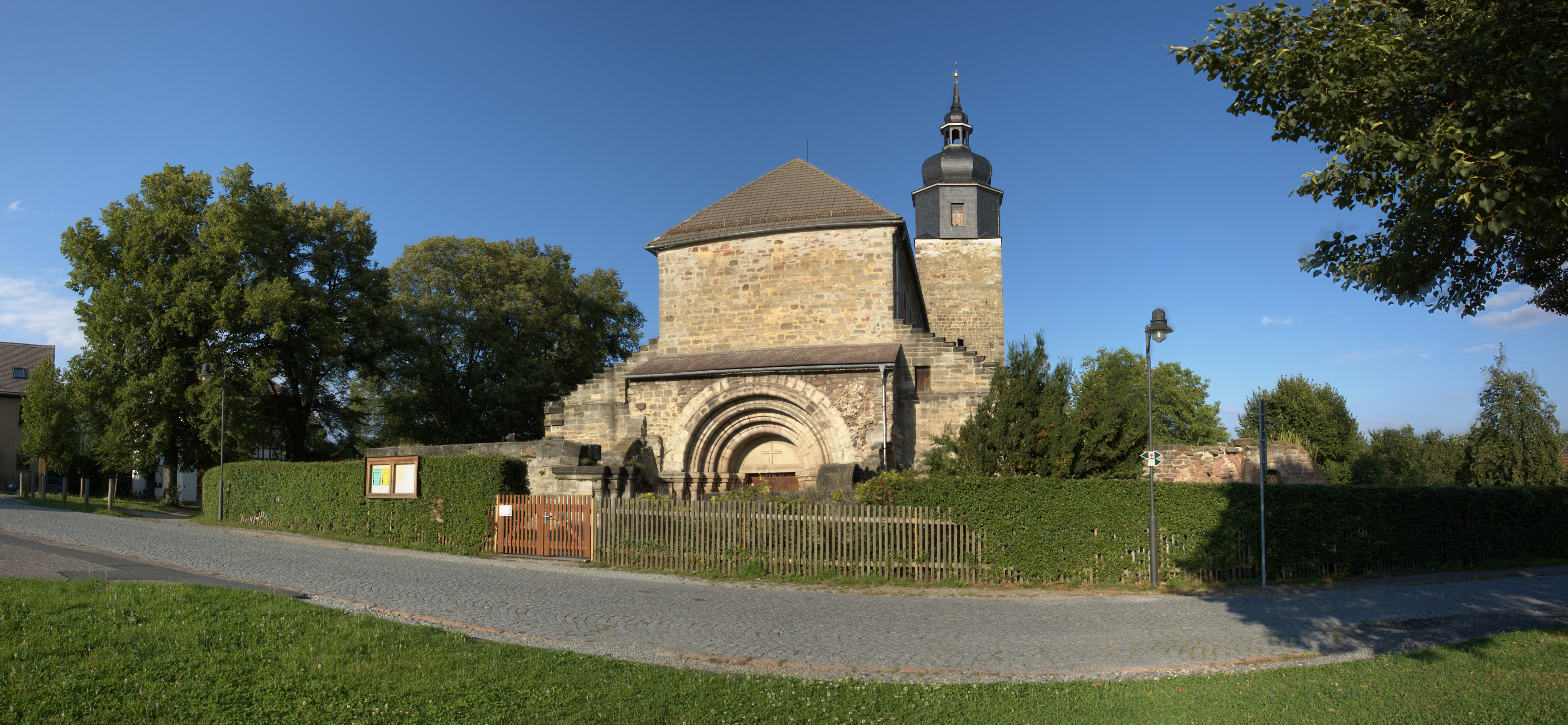 The formaly monastary Thalbürgel in Bürgel